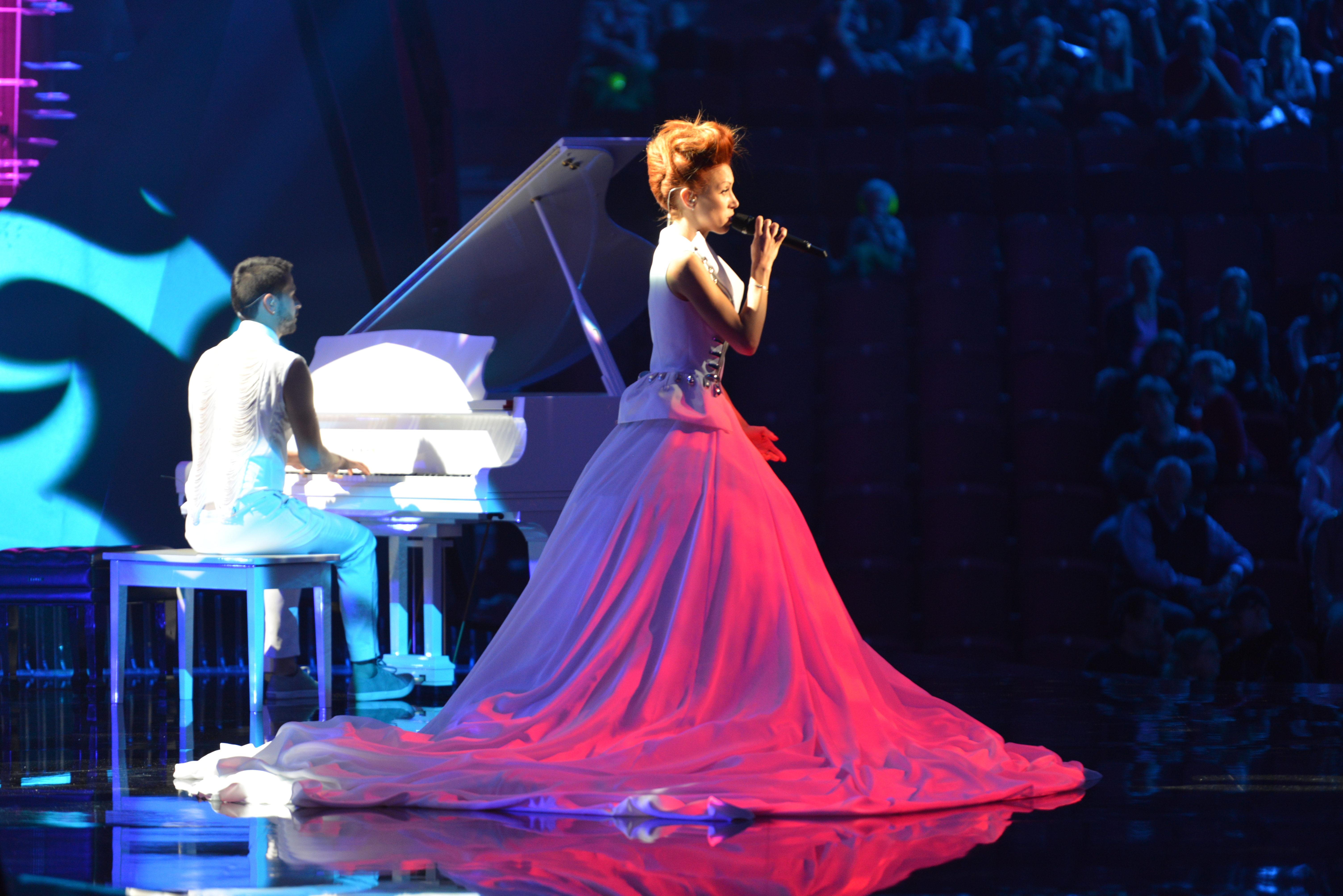 Aliona Moon representing Republic of Moldova with the song "O mie" during the third dress rehearsal of the first semi final of the Eurovision Song Contest 2013 in Malmö. (Help translate this text)